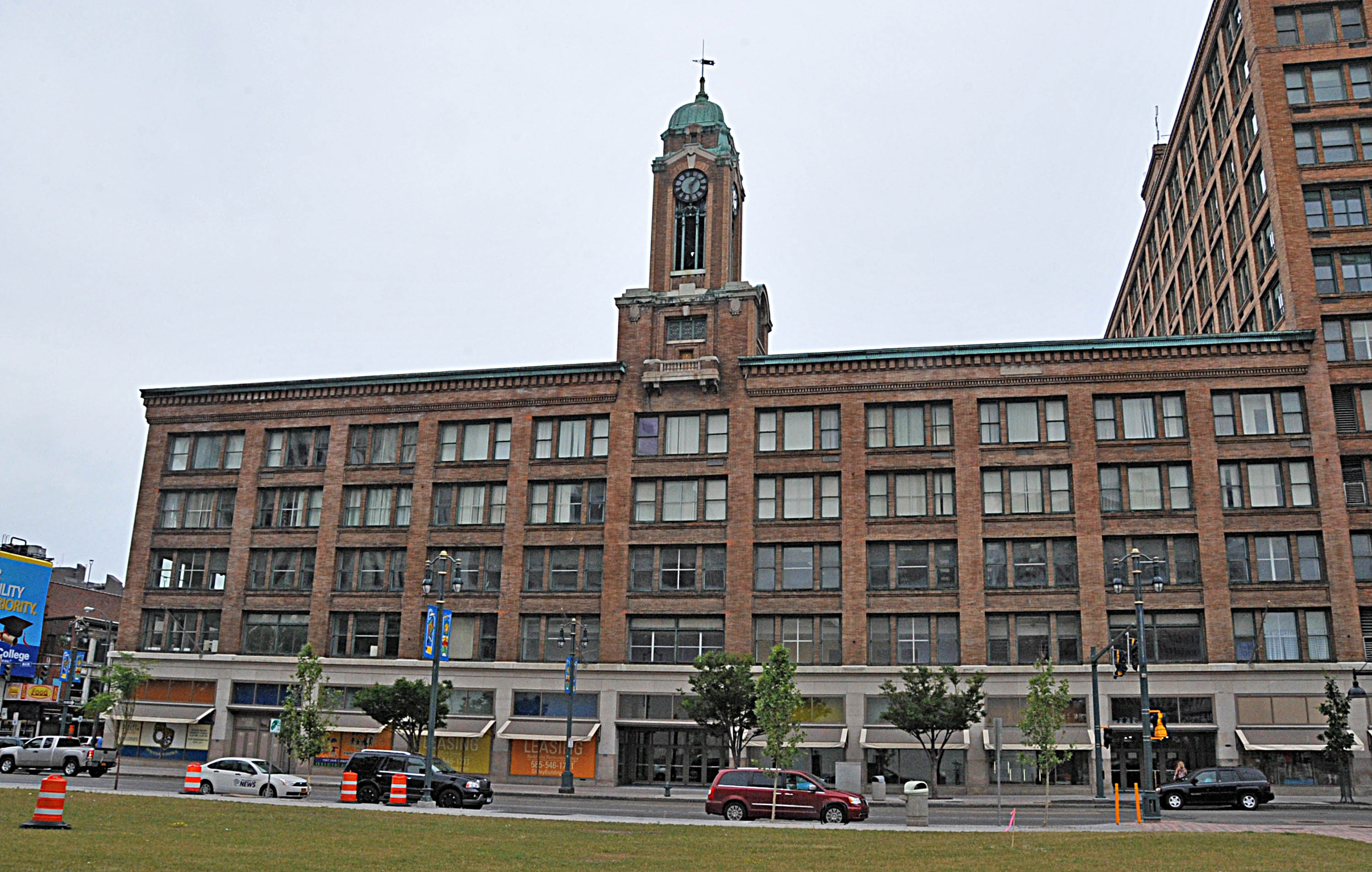 DEPARTMENT STORE ON MAIN STREET IN ROCHESTER; THIS BUILDING WAS BUILT AFTER THE 1904 FIRE GUTTED THEIR STORE IN THE GRANITE BUILDING. SIBLEYS AT ONE TIME WAS THE LARGEST DEPARTMENT STORE BETWEEN NEW YORK AND CHICAGO